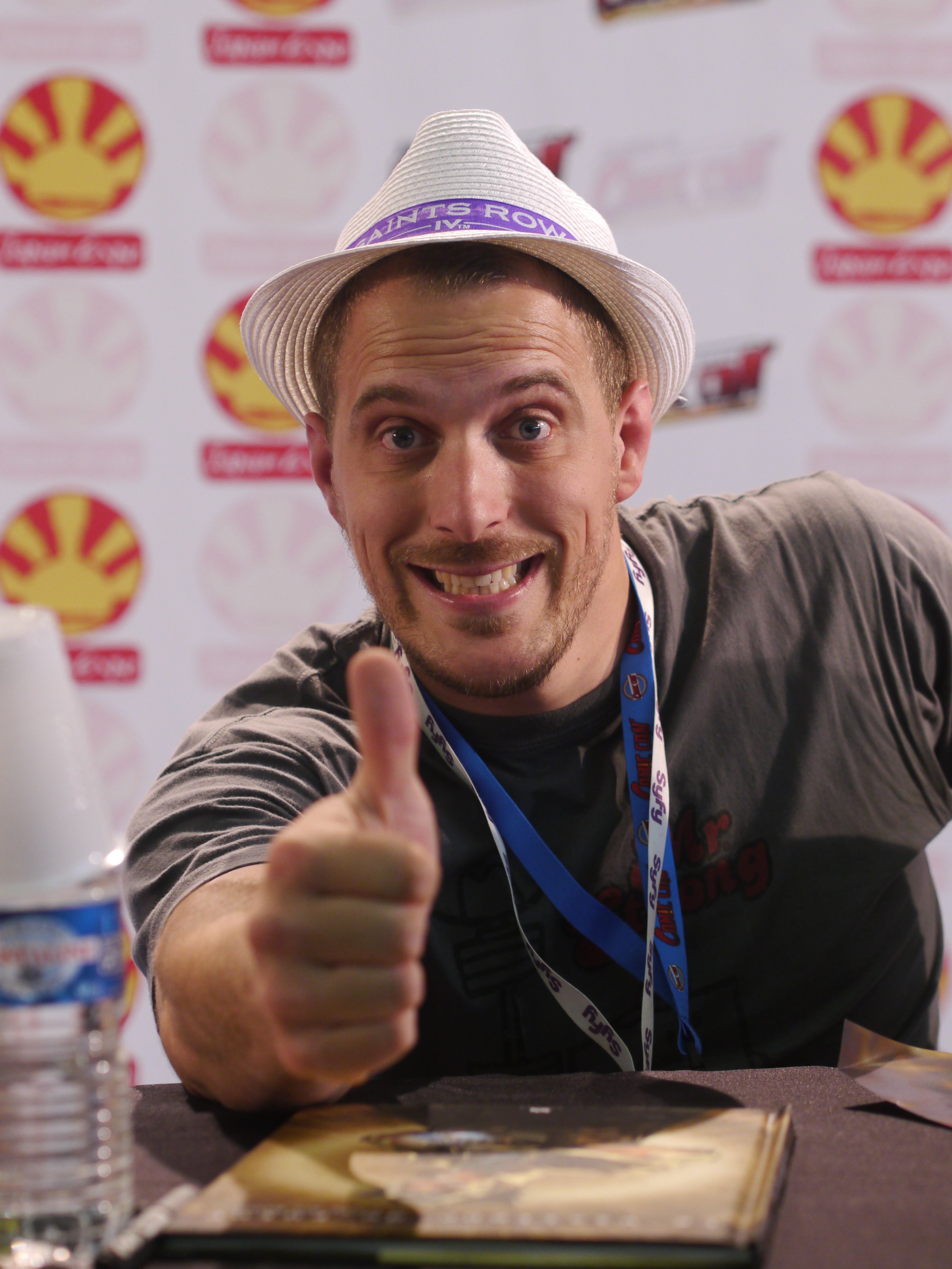 Japan Expo Festival, 14th impact